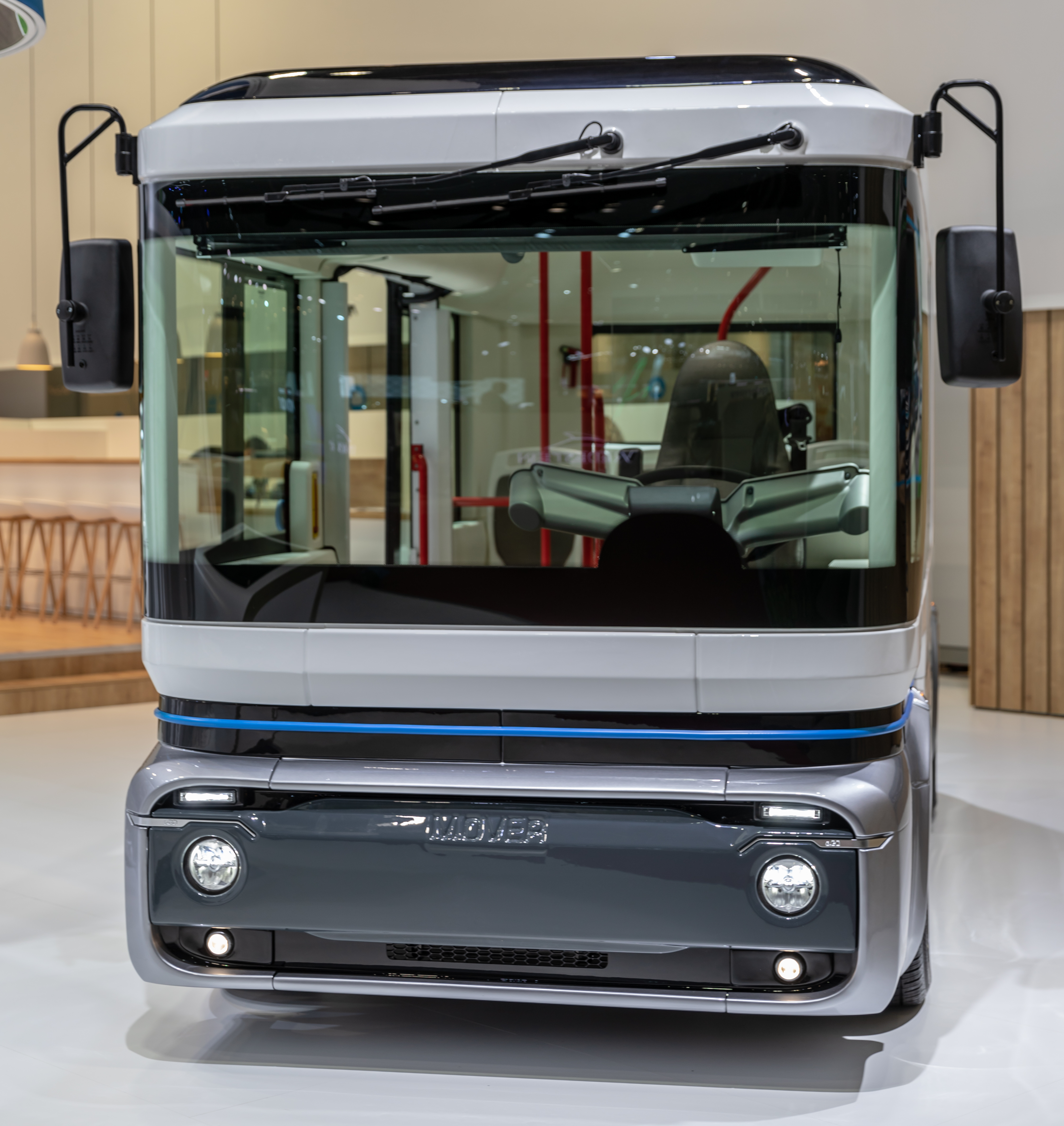 e-Go Mover at Geneva International Motor Show 2019, Le Grand-Saconnex